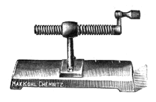 Drawing of a simple machine to demonstrate the action of a screw, from a 1912 scientific instrument catalog. It consists of a threaded shaft, threaded through a stationary mount. As the crank on the left is turned, the shaft moves axially through the hole.